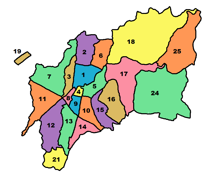 Zone division of Guatemala City. Zones 20, 22 and 23 belong to other municipalities.